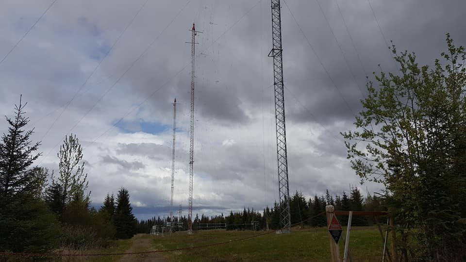 Broadcast towers for KNLS radio, near Anchor Point, Alaska